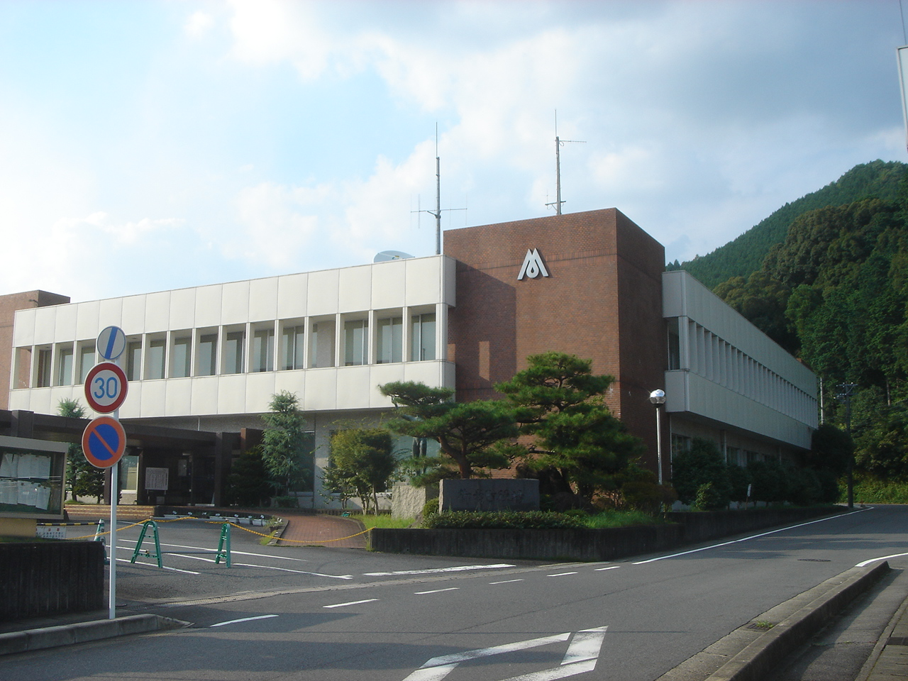 Mitake town office（御嵩町役場）,Mitake,Gifu,Japan(岐阜県御嵩町)で撮影。